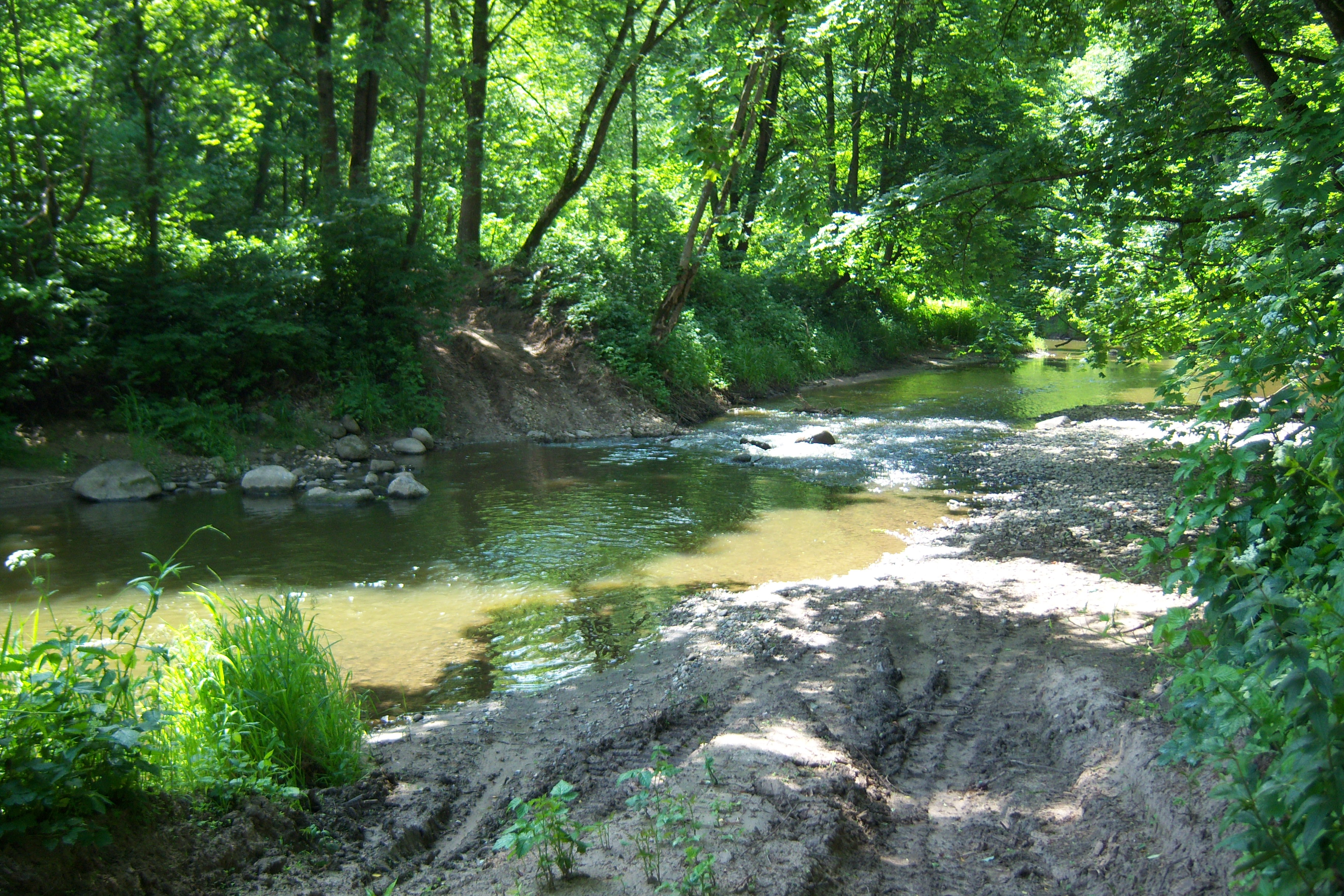 Jiesia River ford. Kaunas district. Lithuania